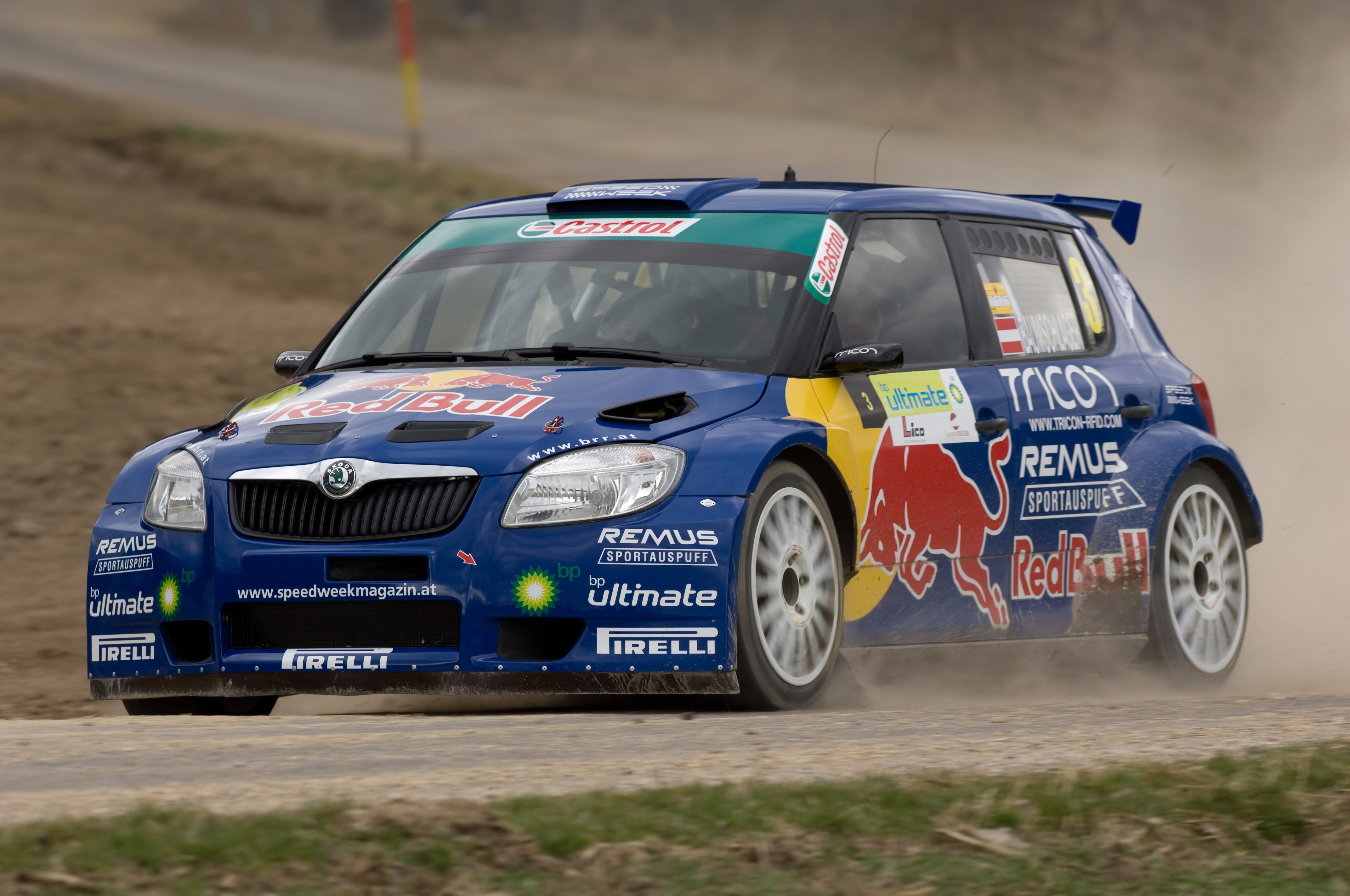 Description: Raimund Baumschlager at Lavanttal Rallye 2009 with a Skoda Fabia S2000 Location: (near Wolfsberg, Austria) Camera: Nikon D2X Lens: AF-S VR Nikkor 300 mm 1:2,8 IF-ED f/5 Film / Speed: ISO 200 Comment